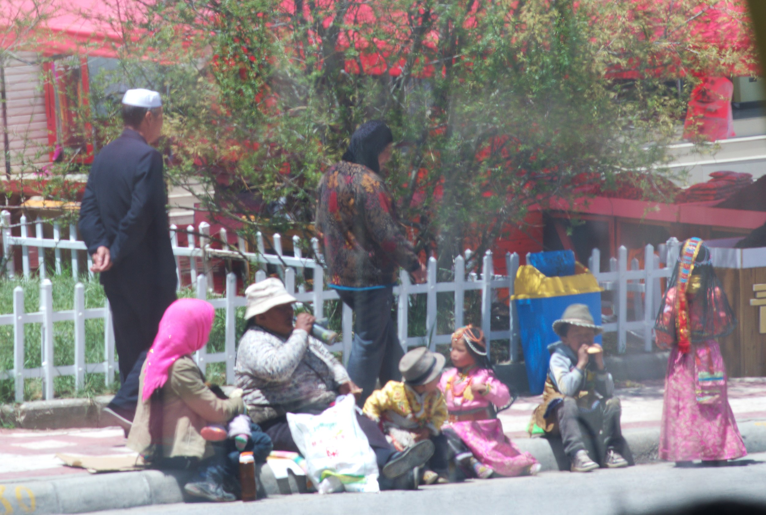 At Qinghai Lake, a Tibetan Zang family, with children wearing traditionnal garb and a Hui couple, with traditionnal white hat for the man and black veil for the wife.